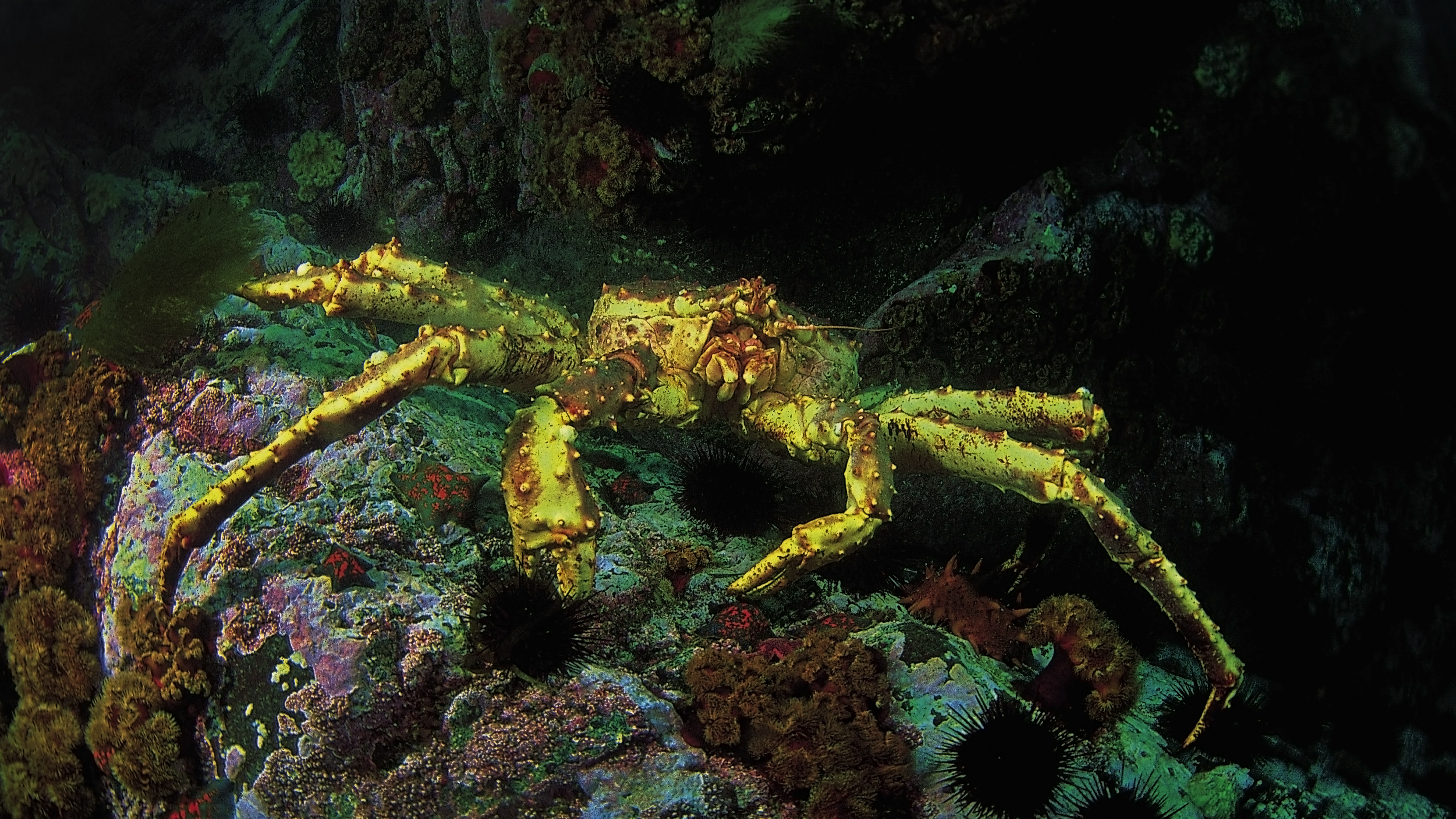 Red king crab (Paralithodes camtschatica)